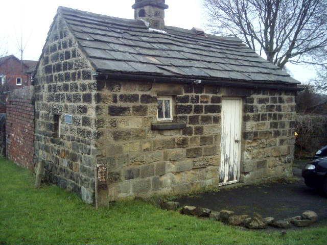 Scarcroft Toll Bar House Built after the construction of the Wetherby/Leeds road in 1826. The Toll system lapsed by 1876 and the gates where removed.